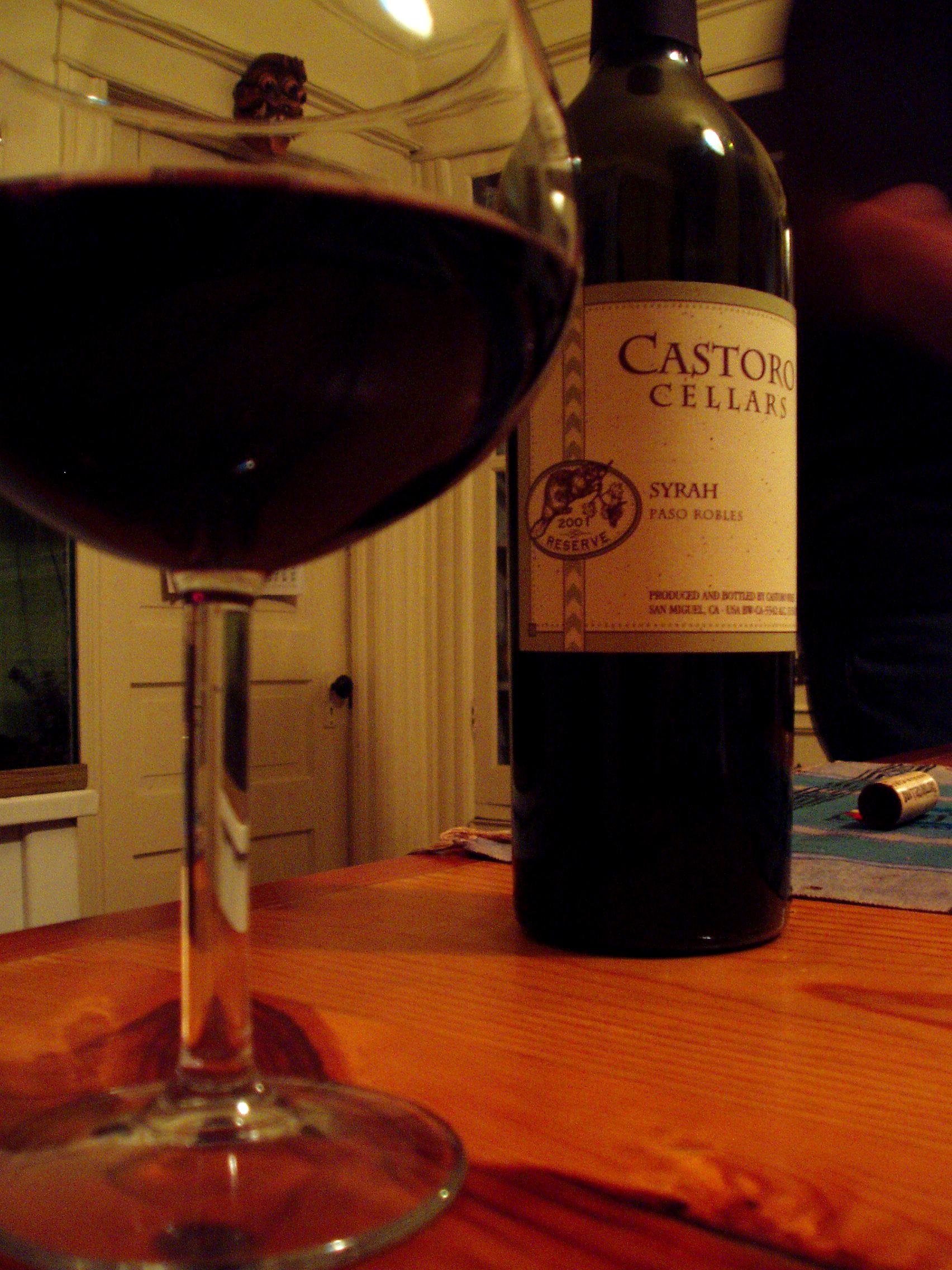 A photo of a class of California Syrah along with the bottle in the background Original photo at Emdot's Flickr Page